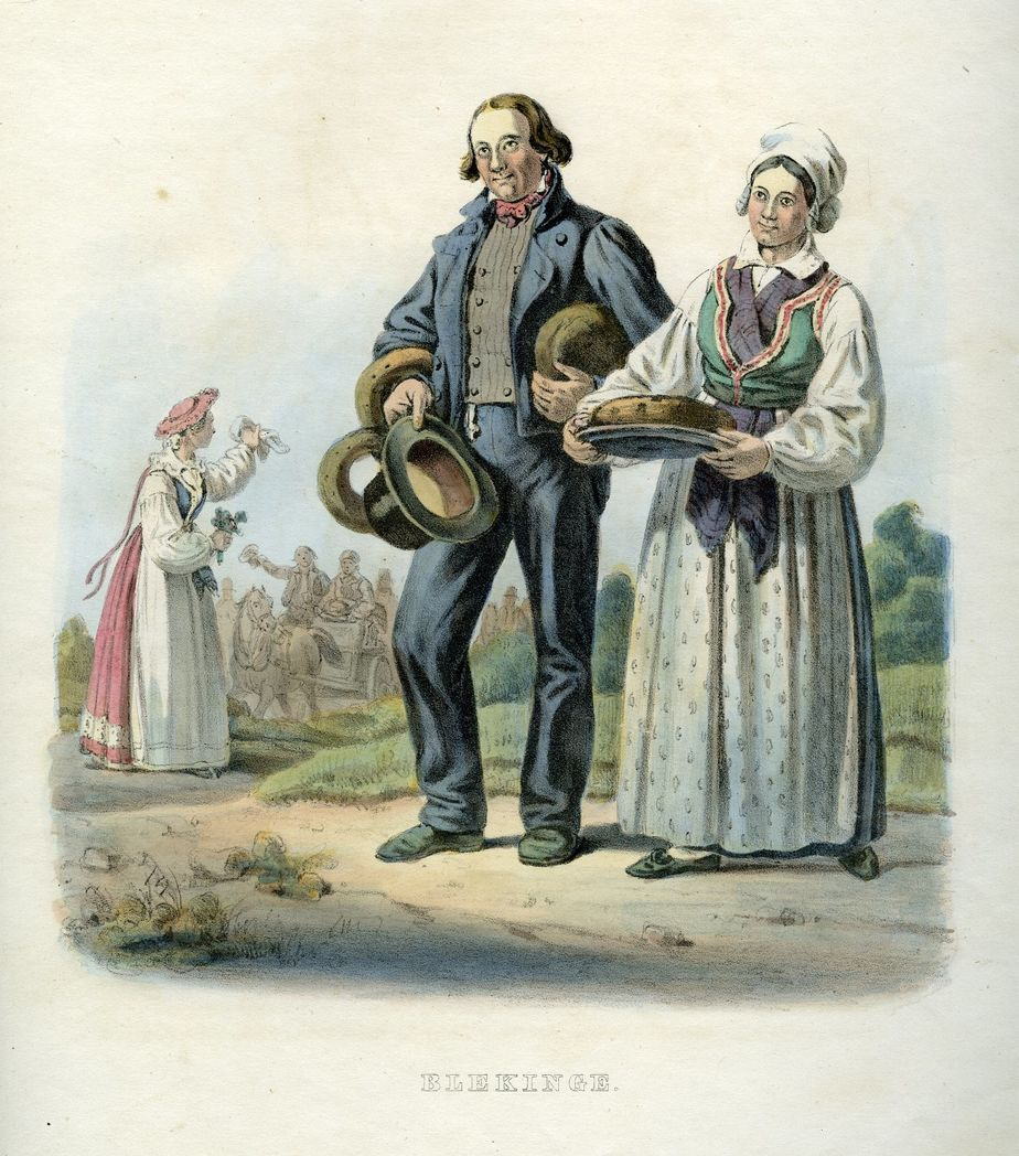 Man och kvinna i Blekingedräkt